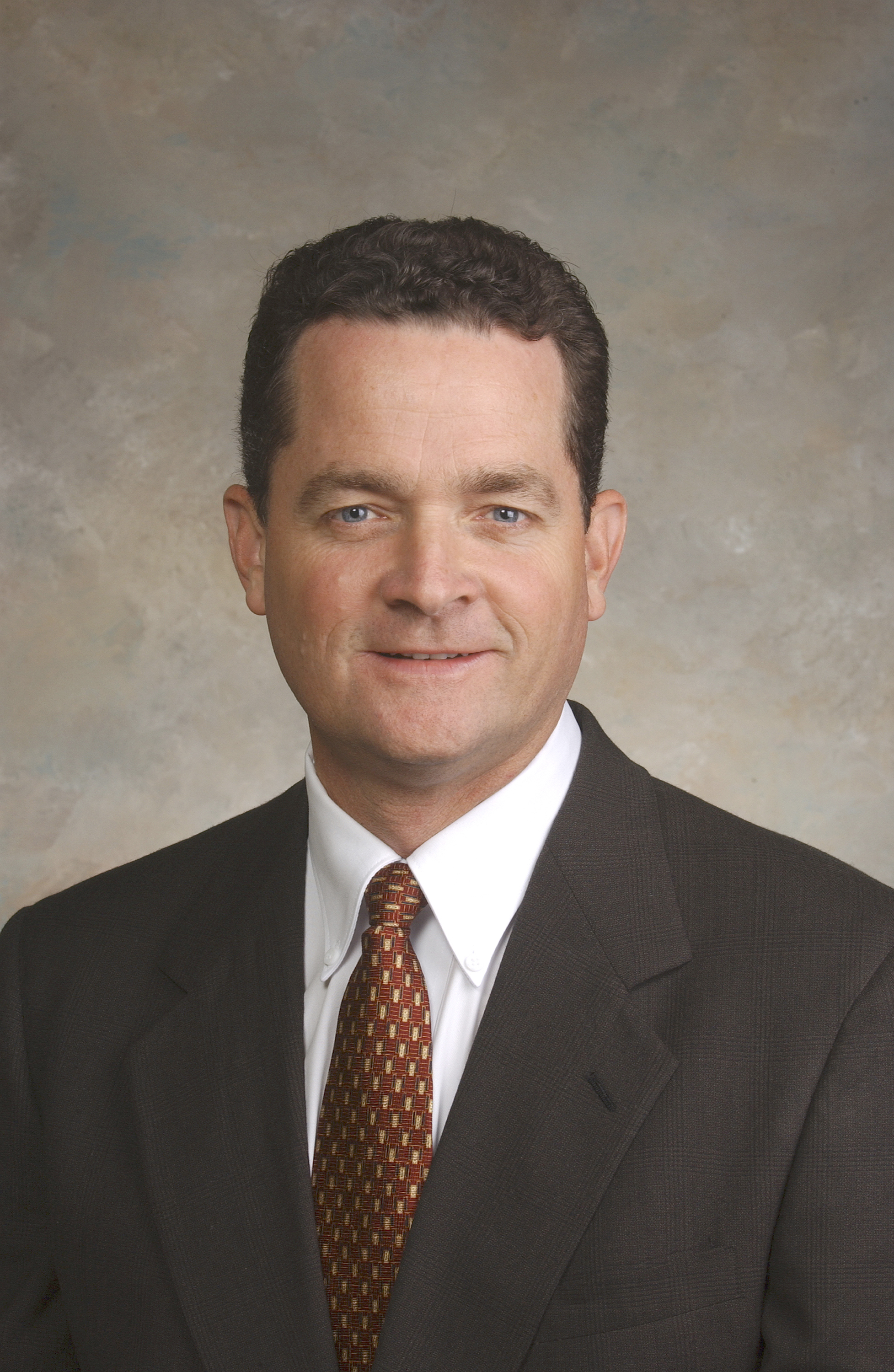 Mr. David A. King has been named the tenth Director of NASA's Marshall Space Flight Center (MSFC). Appointed to take Director's office June 15, 2003, King has been serving as Deputy Director of MSFC since November 2002. With 20 years experience in spacecraft and high-technology systems, Mr. King began his NASA career at NASA's Kennedy Space Center, Florida in 1983 as a main propulsion system engineer. He later served as flow director for the Space Shuttle Discovery and then as the acting deputy director of the installation Operations Directorate. He was appointed deputy director of Shuttle Processing in 1996, Launch Director in 1997, and director of Shuttle Processing in 1999.